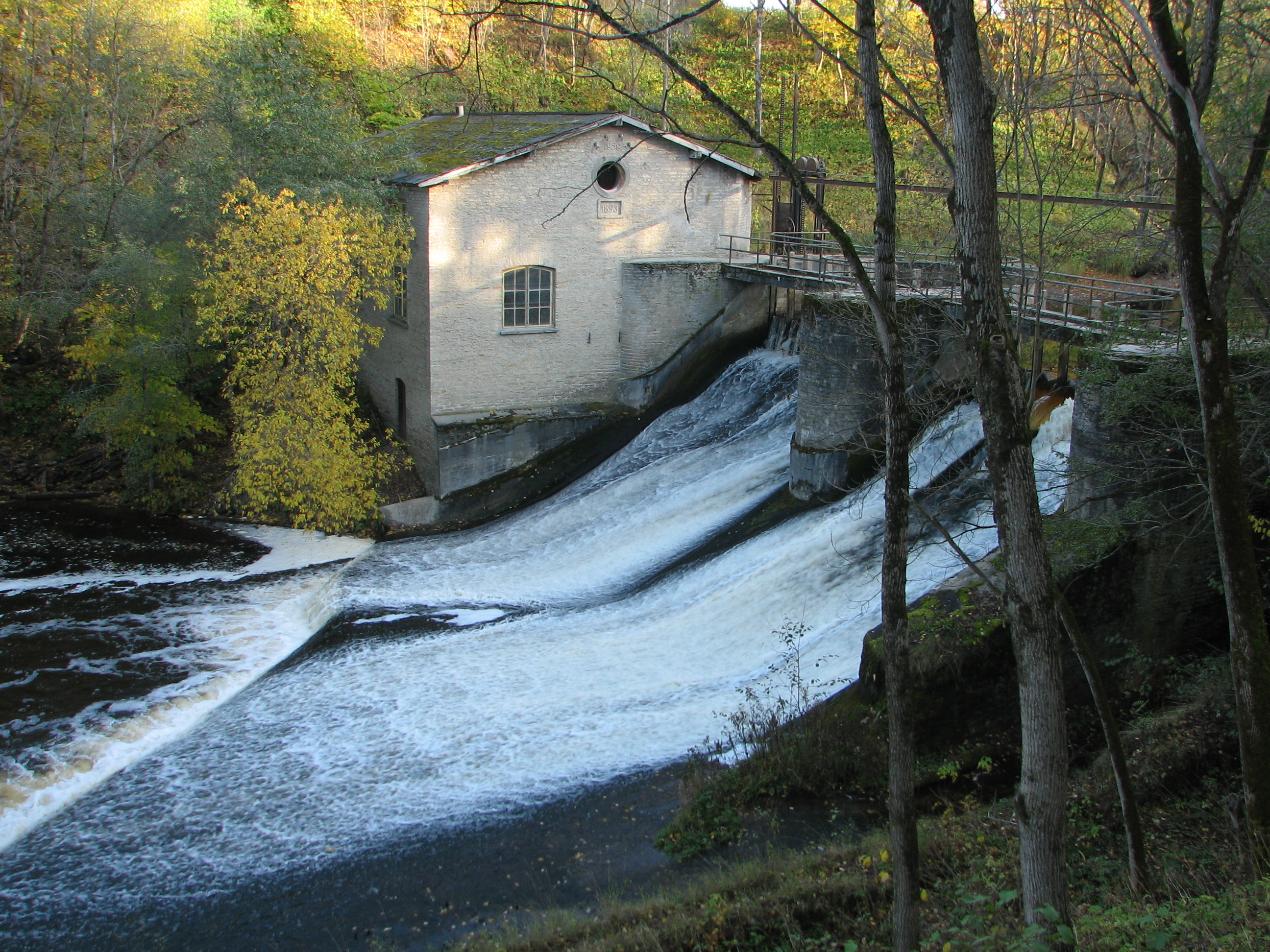 Kunda hydroelectric station, the oldest in Estonia.